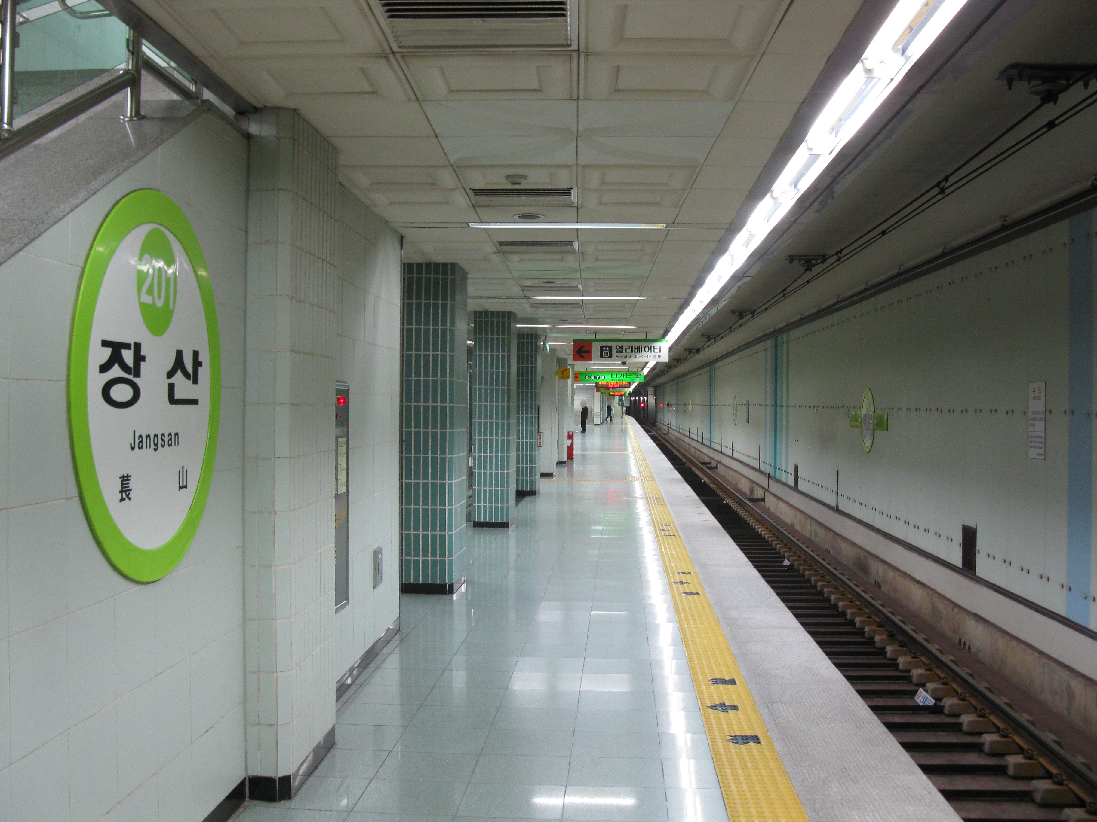 The platform at Jangsan Station on the Busan Subway Line 2 in Haeundae-gu, Busan, Republic of Korea(South Korea)